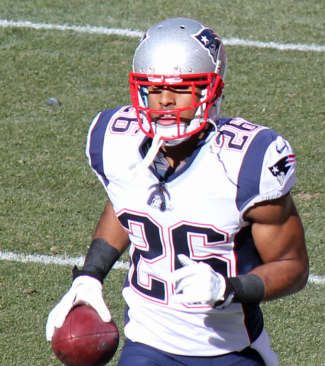 Logan Ryan, a player on the National Football League.